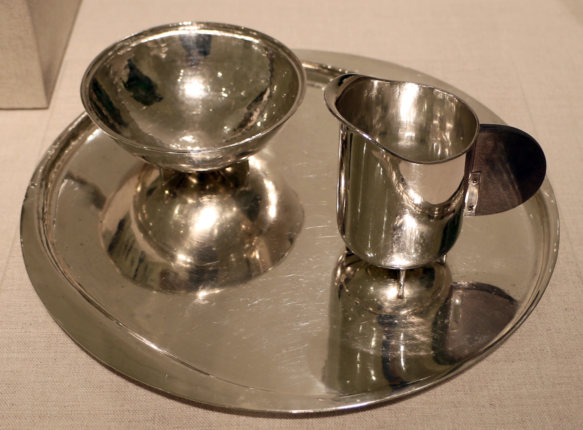 Collections of the Smart Museum of Art